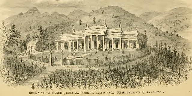 Ranch of Haraszthy Ágoston